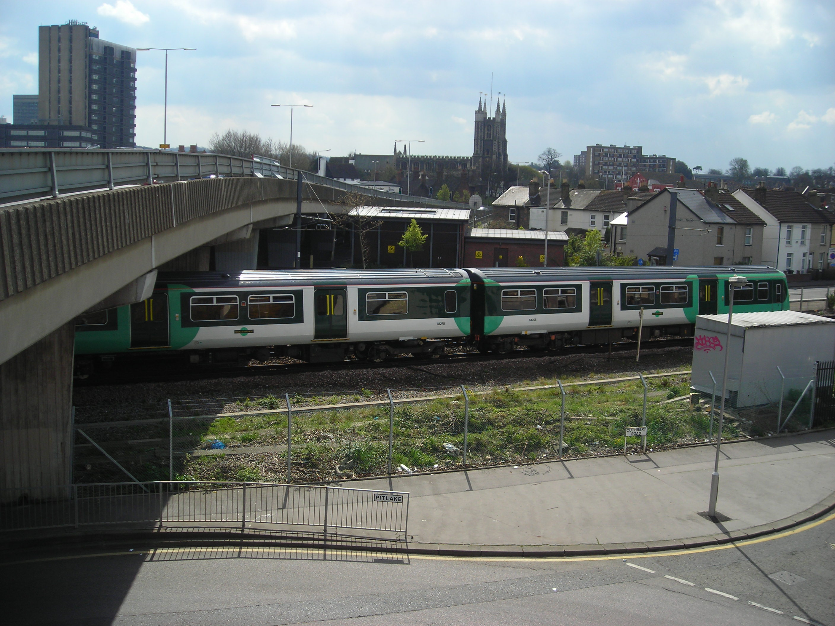 A British Rail Class 456, going underneath Old Town Flyover towards West Croydon station operating in Southern branding.